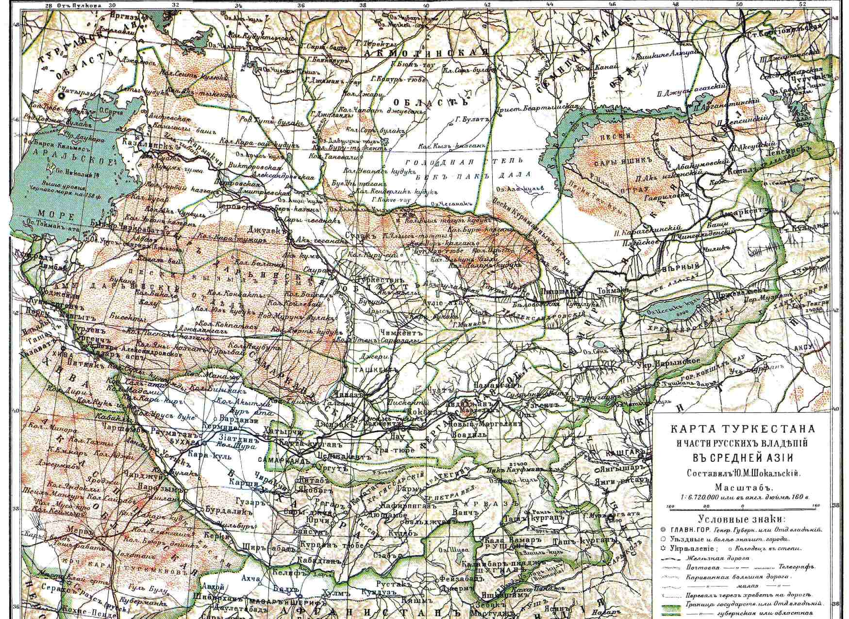 The map of Russian Turkestan and Khanates of Khiva and Bukhara, from Brockhaus and Efron Encyclopedic Dictionary (1890-1907). The area shown on the map includes the entire territory of today's Tajikistan and Kyrgyzstan, almost all of Uzbekistan, eastern part of Turkmenistan, and south-eastern Kazakhstan.